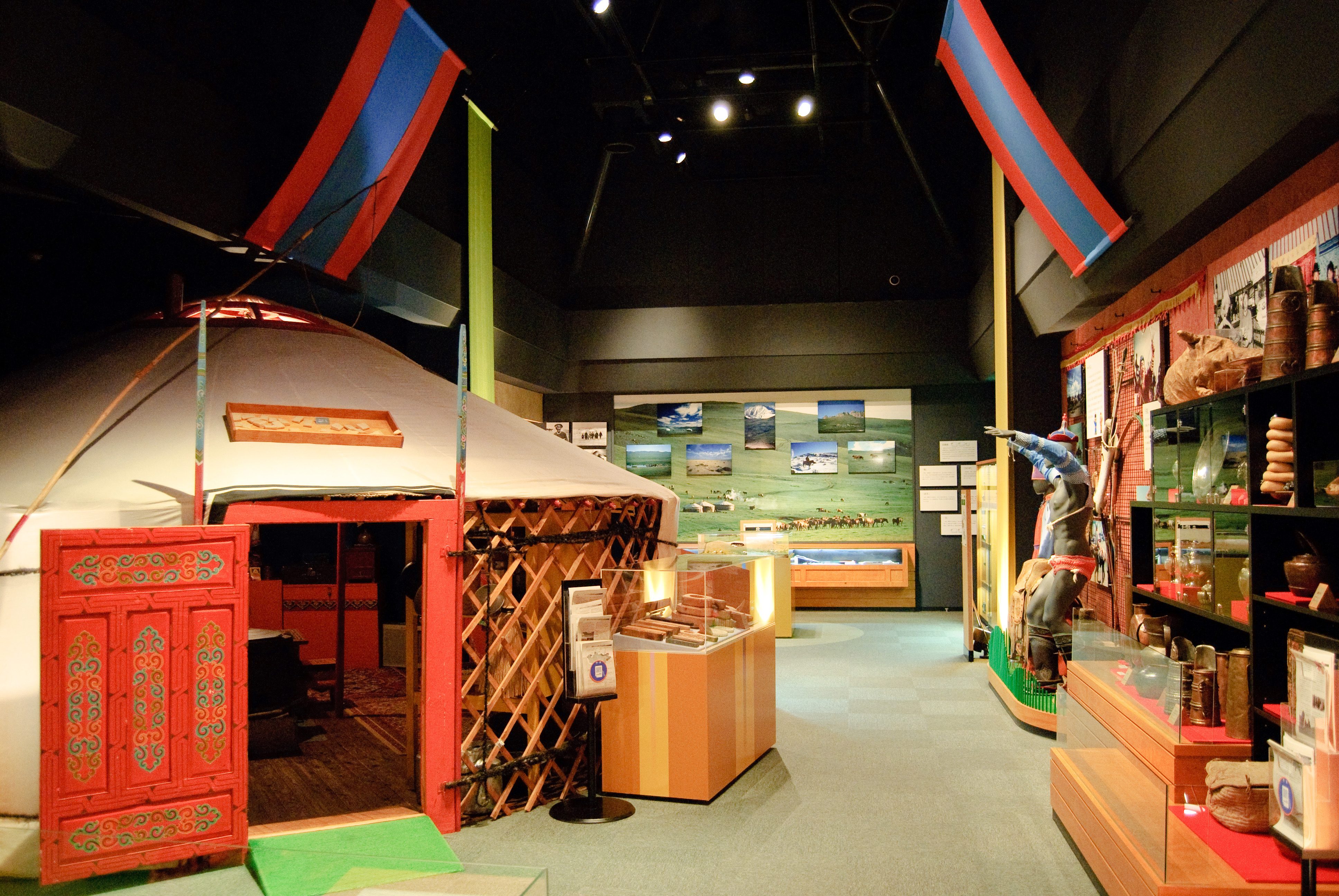 Japan Mongolia Fork Museum.